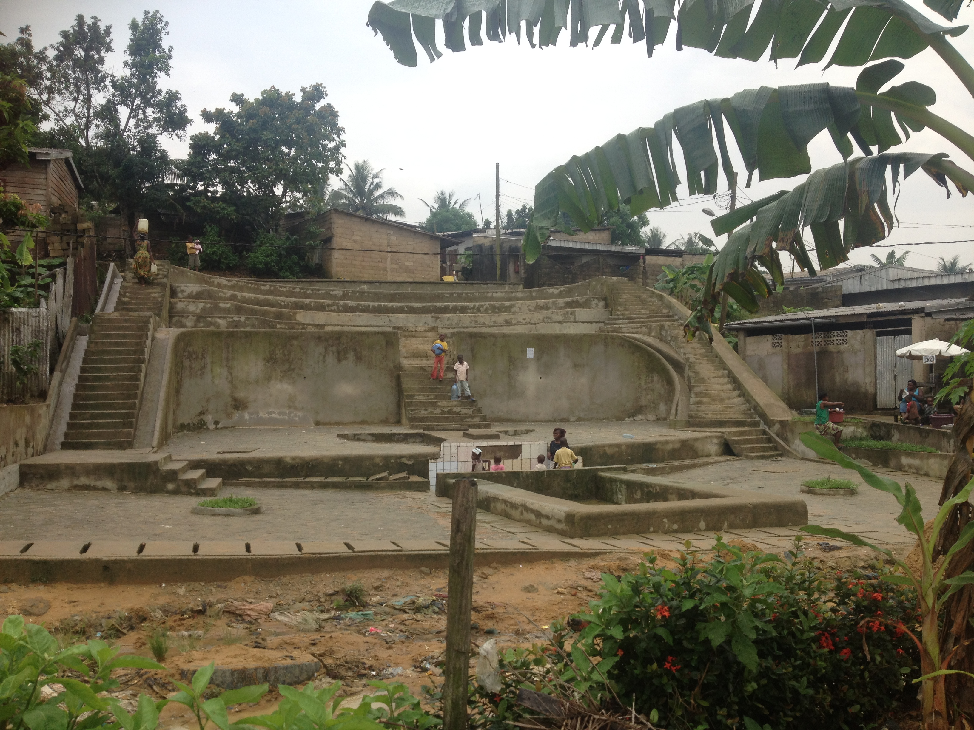 Philip Aguirre, Théâtre-Source 2013.